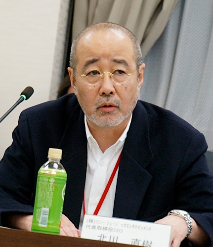 The boss of Sony Music Entertainment Kitagawa Naoki-san. He talked about the efforts they are making to bring more concerts to locations around the world. View more at